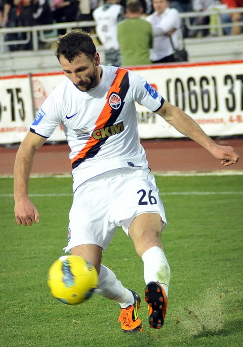 Razvan rat players